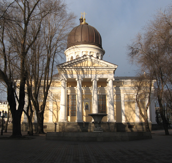 Odessa Cathedral of Gods Transfiguration